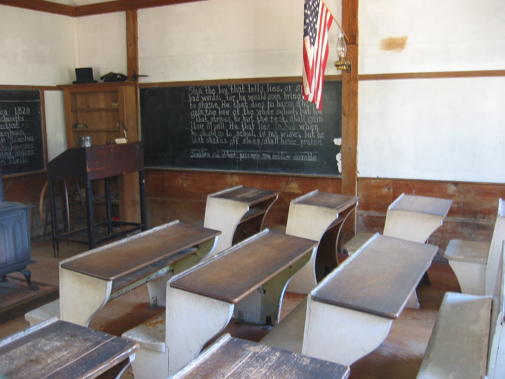 Taken by Dudesleeper.